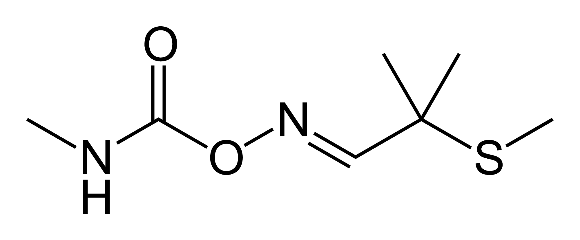 Skeletal formula of aldicarb